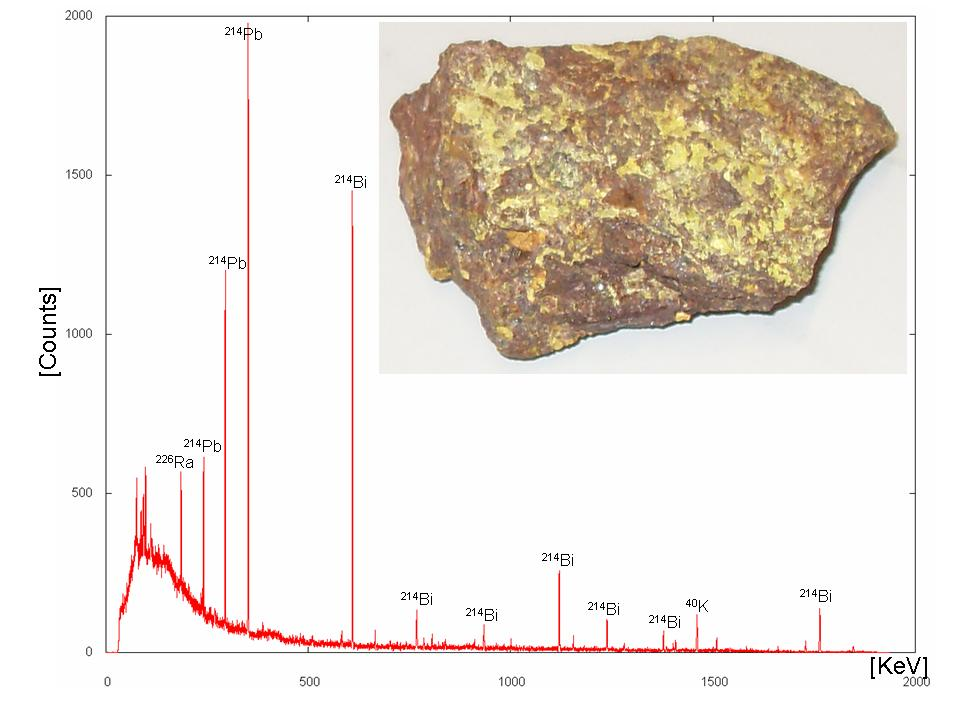 Gamma spectrum of the shown Uranium ore with the typical isotopes of the Uranium-Radium decay line 226Ra, 214Pb, 214Bi. In the gammaspectrum, the alpha emitter Uraium itself is obviously not shown. The 40K (Potassium-40) does not originate from the mineral.